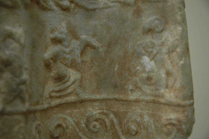 Detail of the veil of Despoina from the cult statue from Lycosura